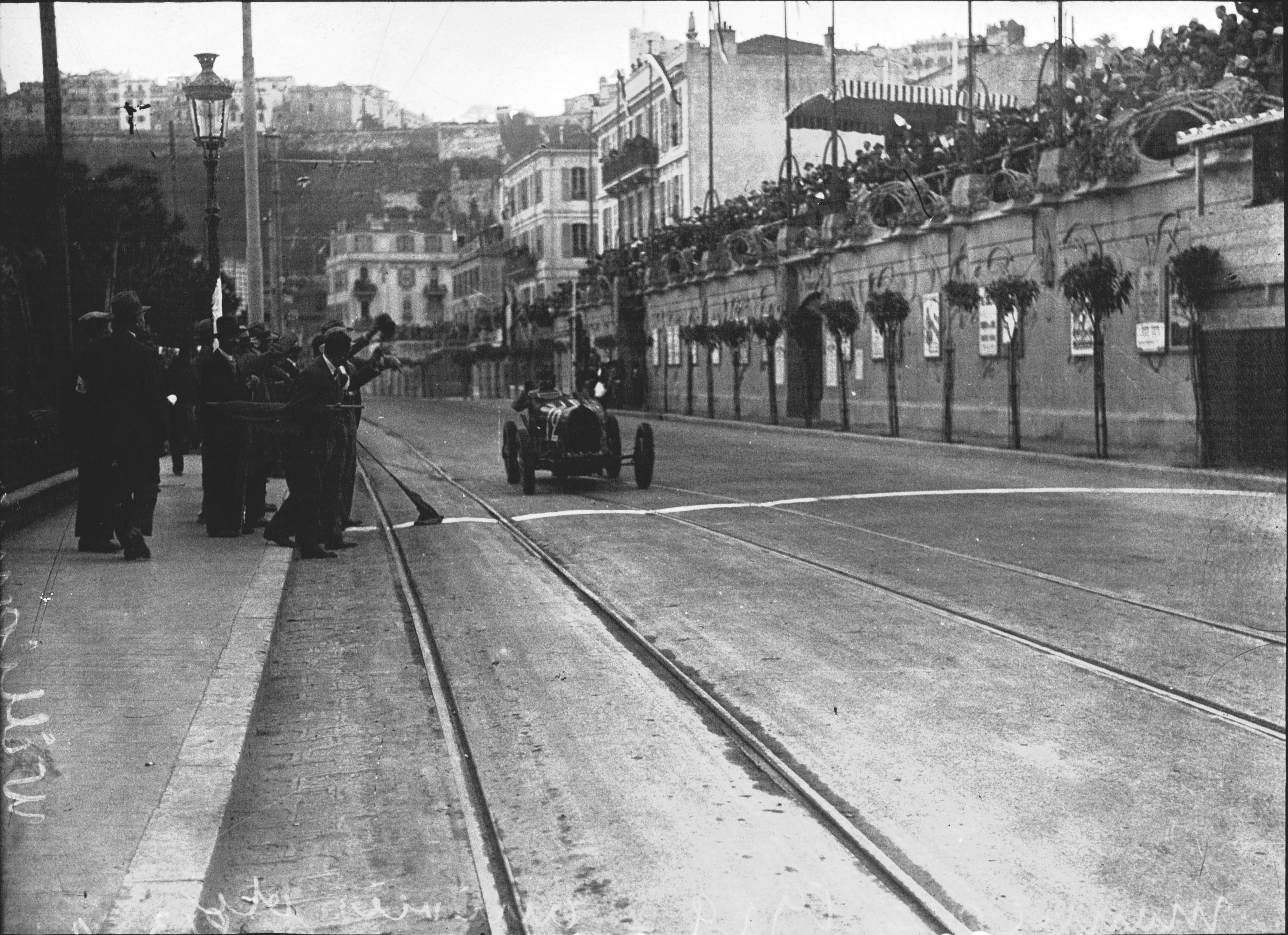 William Grover-Williams at the 1929 Monaco Grand Prix